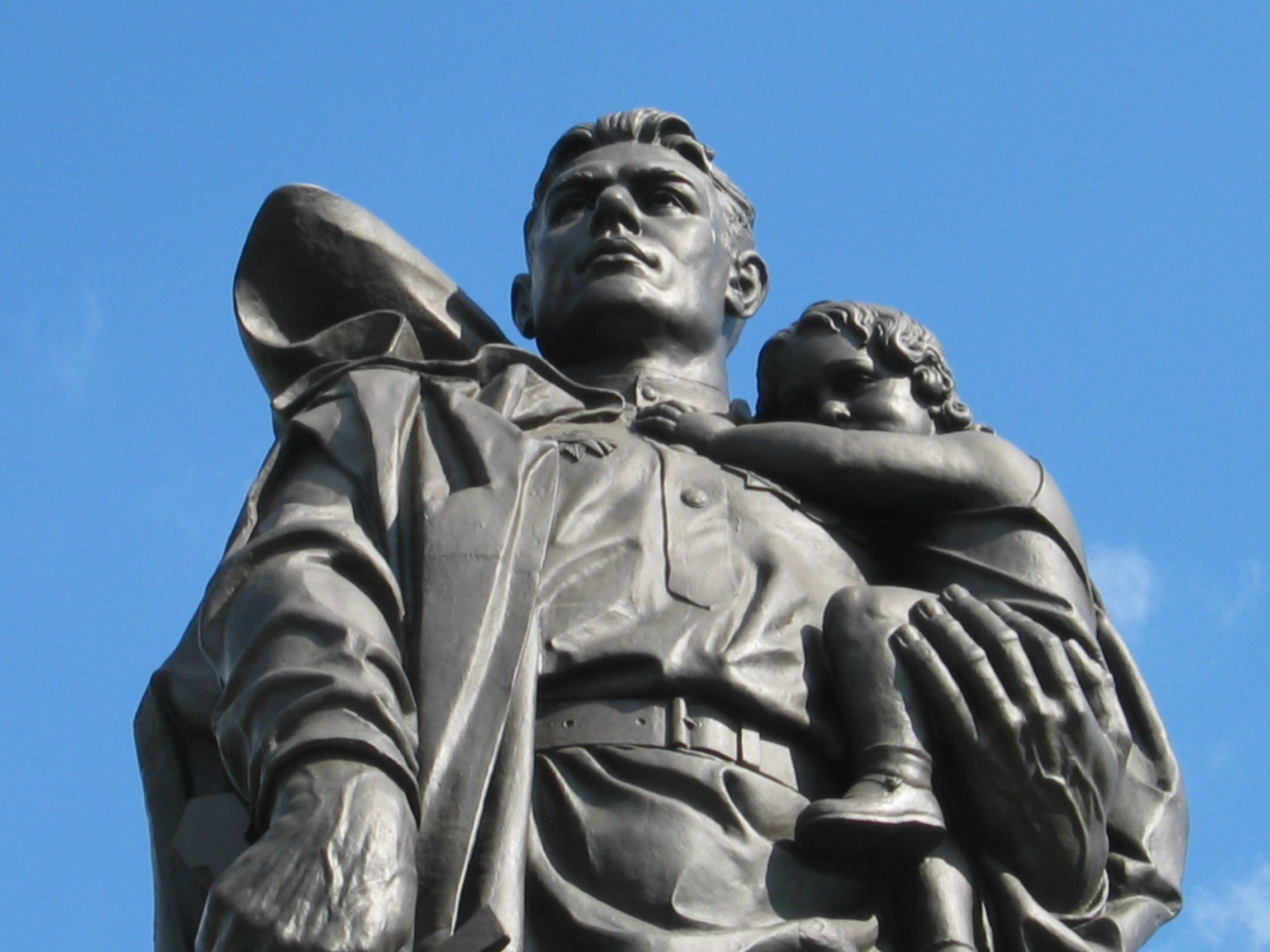 Detail from the Sovjet Monument in Berlin Treptow (the model for the girl was Svetlana Kotikova)